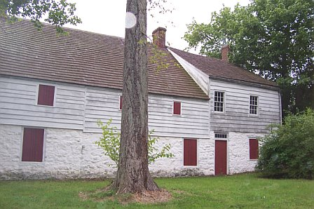 dutch colonial stucture, staten island, ny